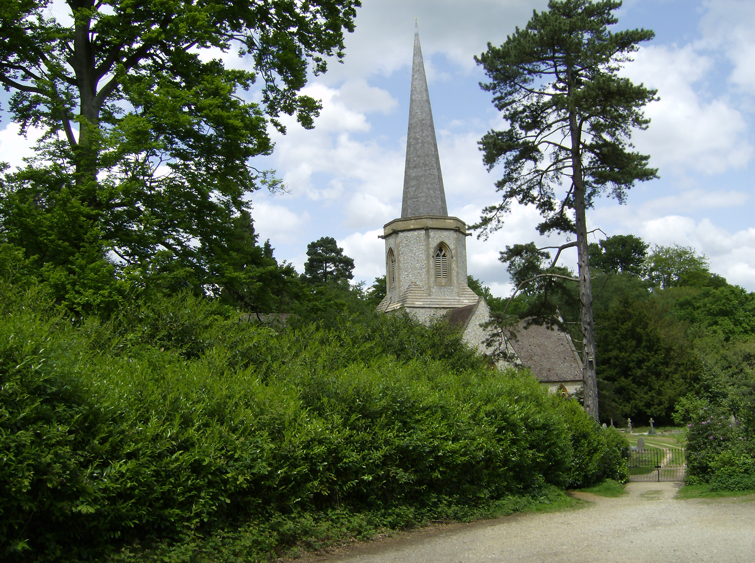 Penn Street Church, Penn, Bucks